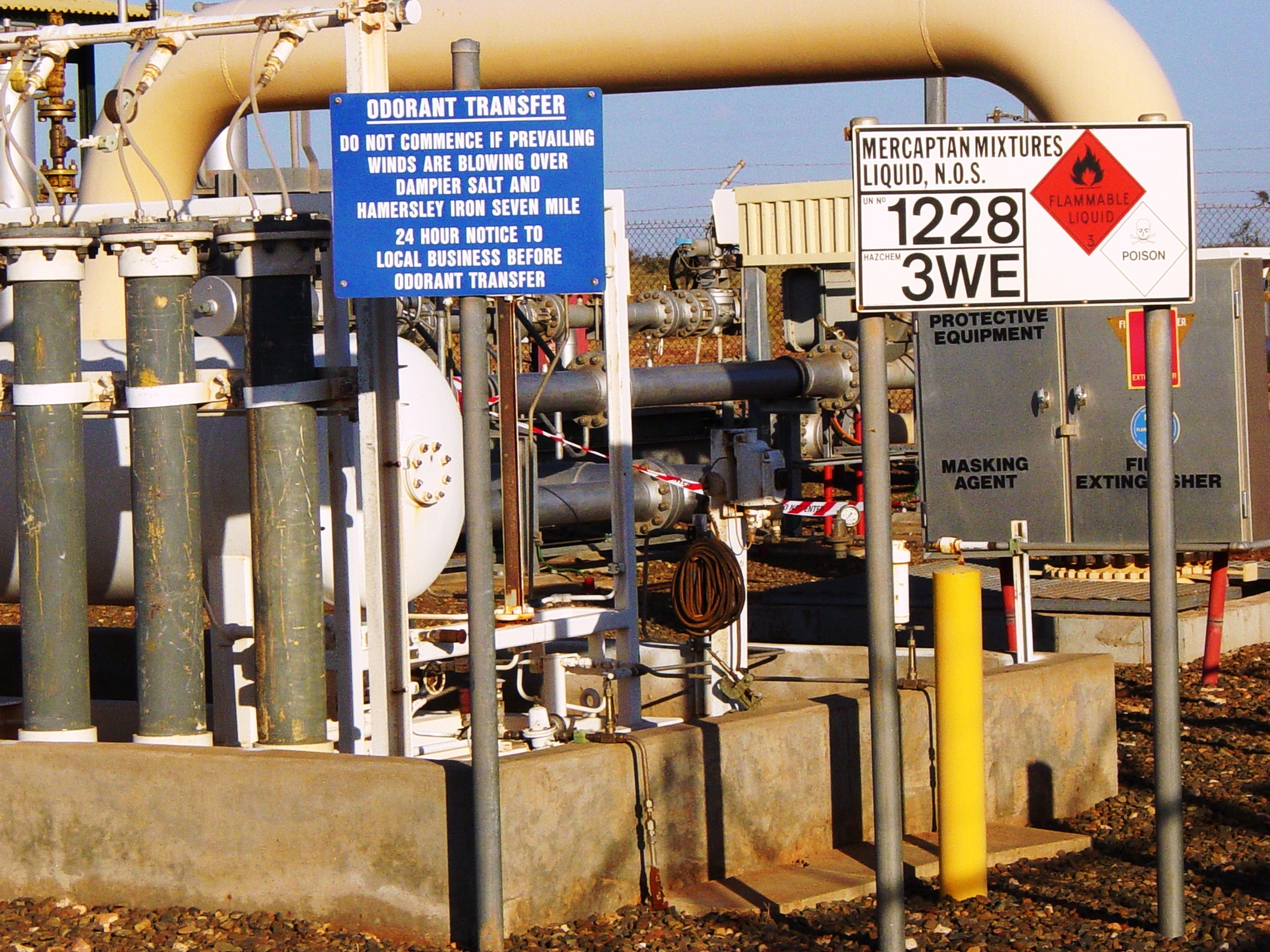 Gas odourant injection facility located at mainline valve #7 on Dampier to Bunbury Natural Gas Pipeline (near Dampier, Western Australia)